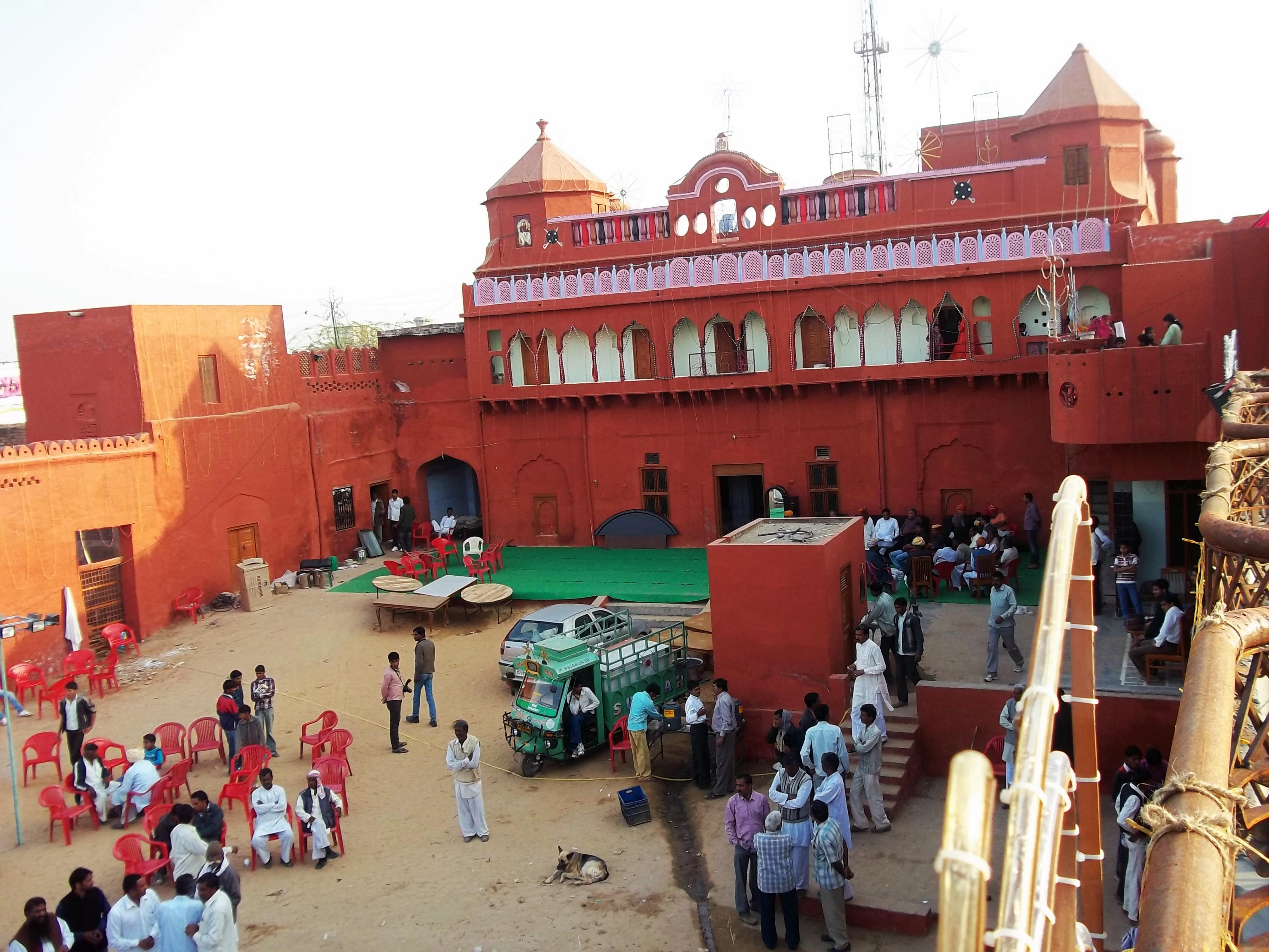 Ajitpura Royal Fort